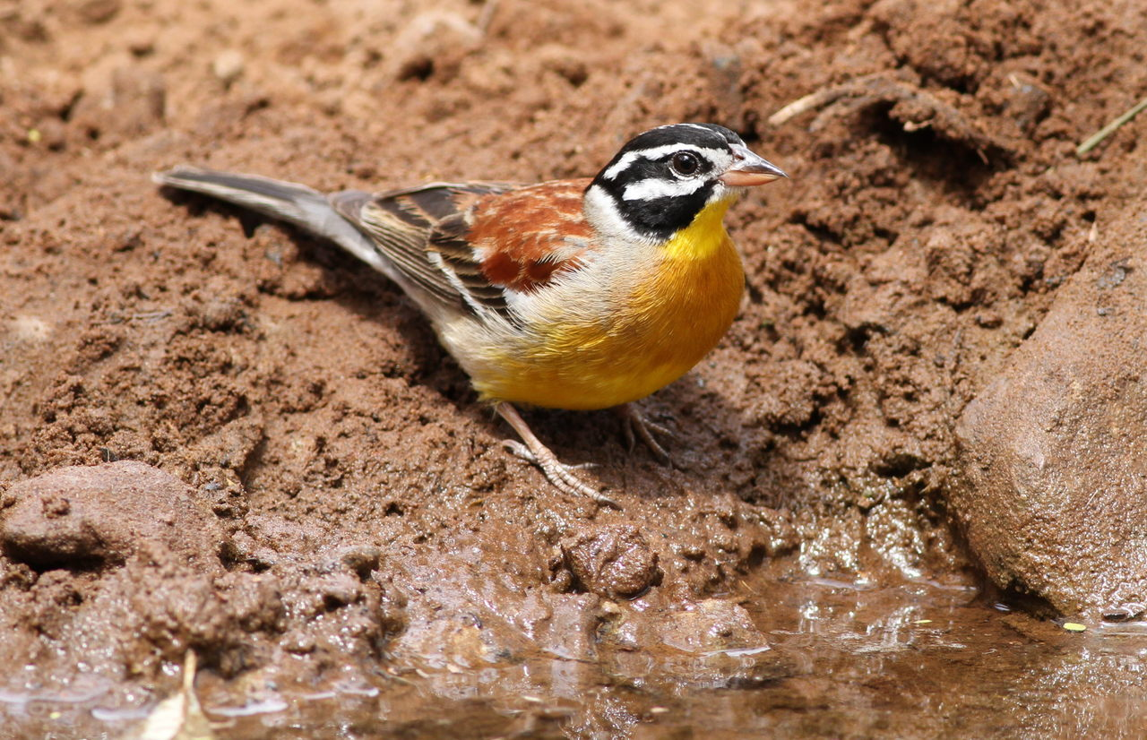 Golden-breasted bunting, Emberiza flaviventris, at uMkhuze Game Reserve, kwaZulu-Natal, South Africa